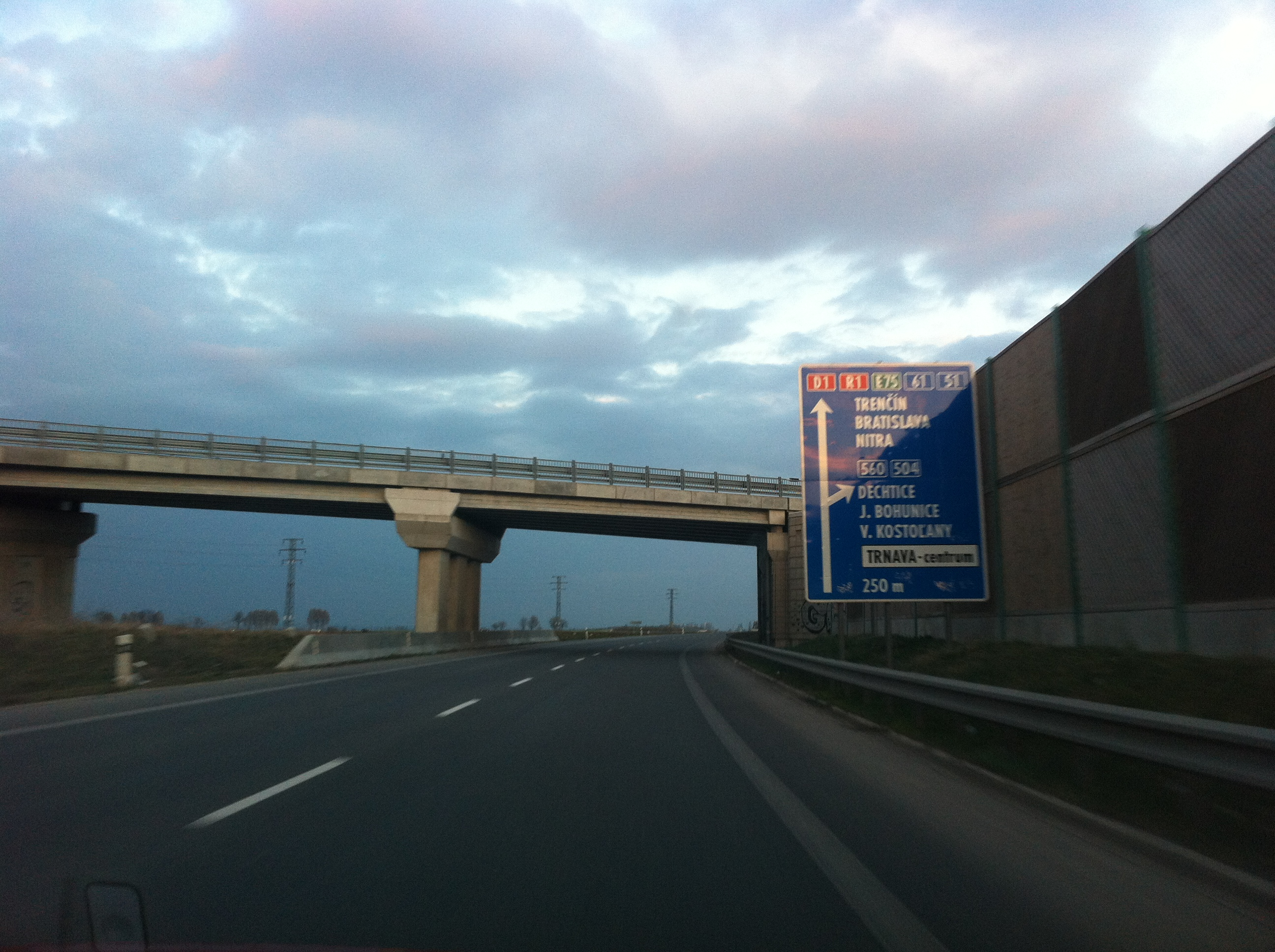 Image of Slovak 1st-class road 51 north of Trnava, using the bypass completed in 2012, direction R1 expressway